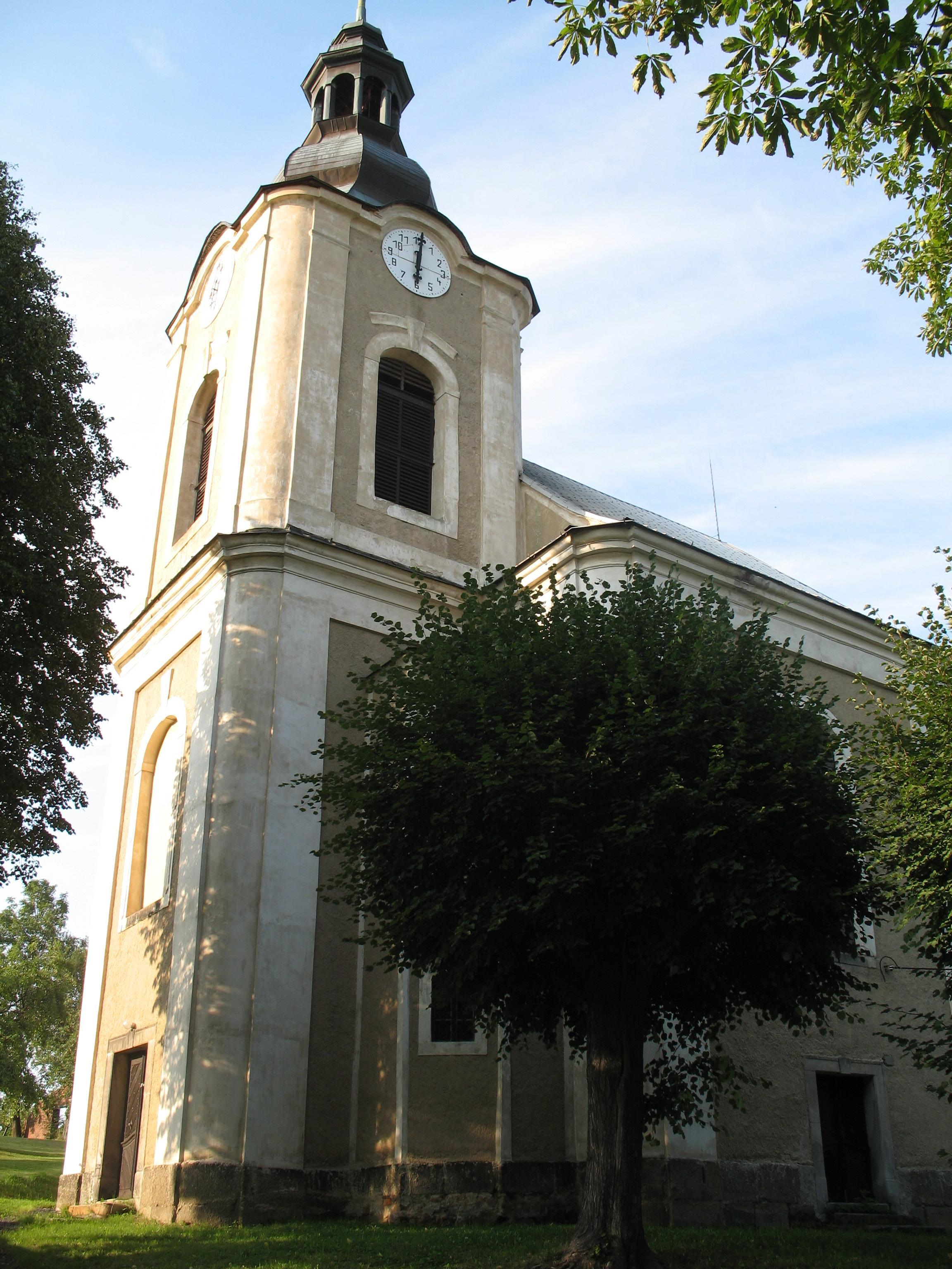 Church of St Anne in Andělka (part of Višňová municipality, Liberec District, Czech Republic